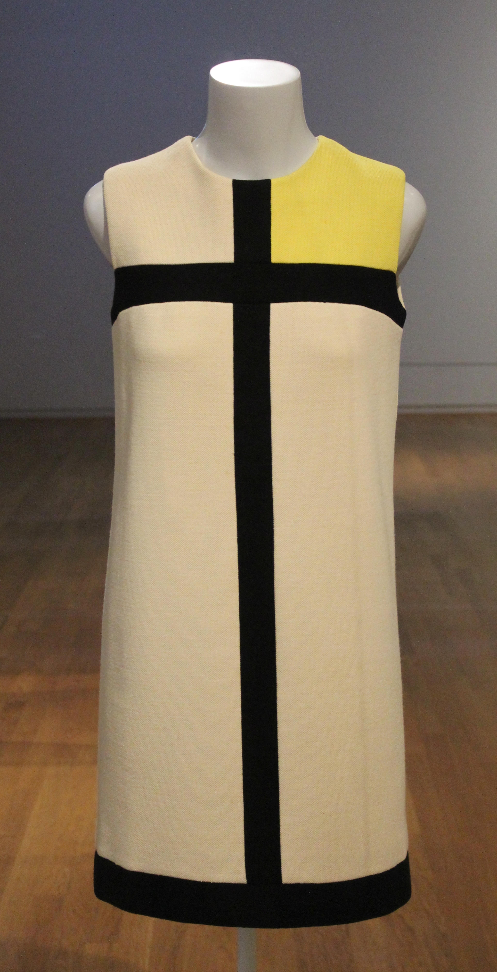 Mondrian dress (1965) Yves Saint Laurent, wool with silk lining (Rijksmuseum, Amsterdam)